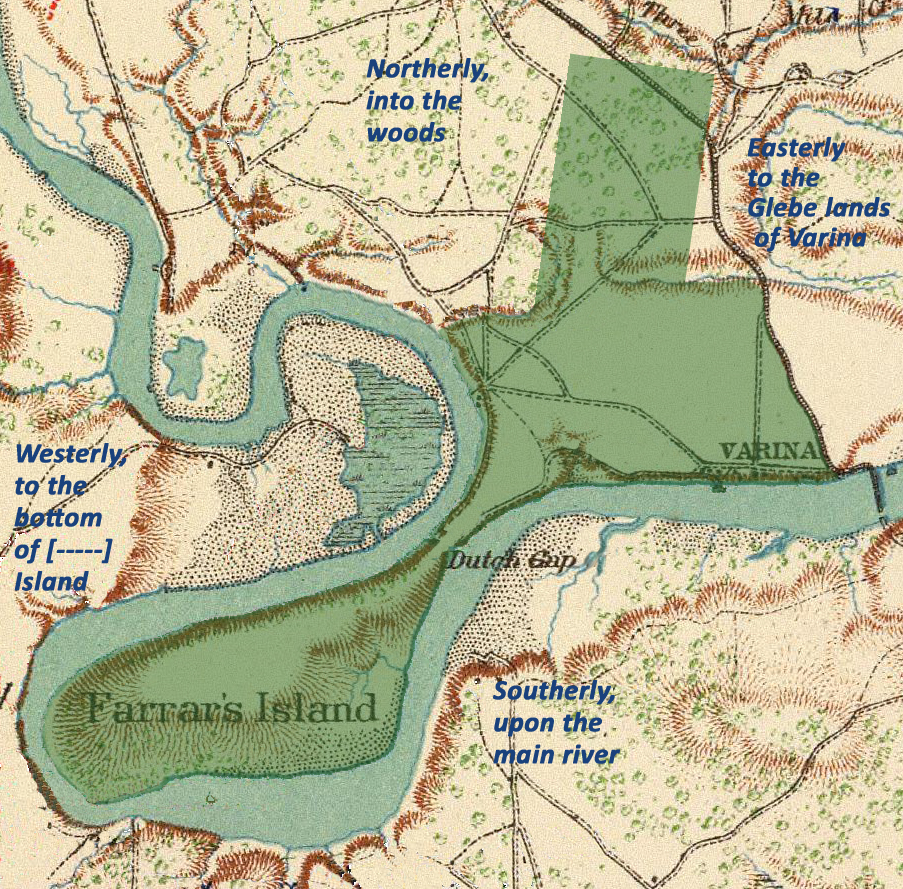 This map depicts the land acquired by William Farrar as described in the 1637 Patent. The map is based on the description of the land's boundaries as described in the Patent. The area abuts the glebe lands of Varina and includes both Farrar's Island and Henrico. Patent boundaries taken from Bannister 1996,Mapping 17th Century Patents on the north side of James River, between Varina and World's End in Henrico. Map was created from Plate LXXVII map of the 1864 Bermuda Hundred Campaign from the War of the Rebellion Atlas. Military dispositions and most place names were removed, and descriptions of boundaries from patent were added.